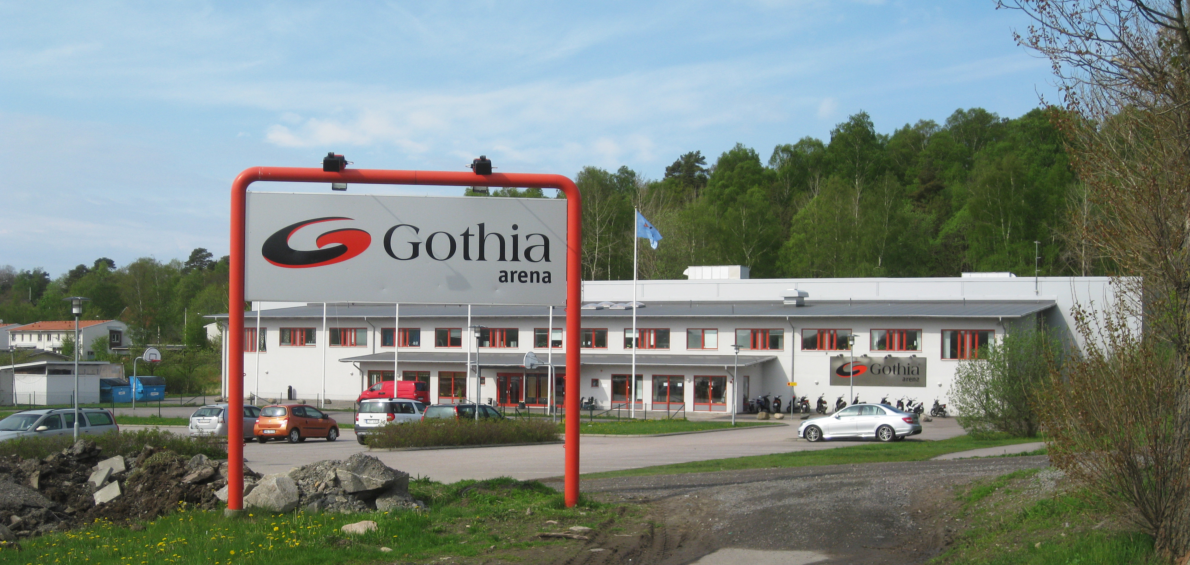 Gothia Arena in Västra Frölunda, Göteborg, Sverige.